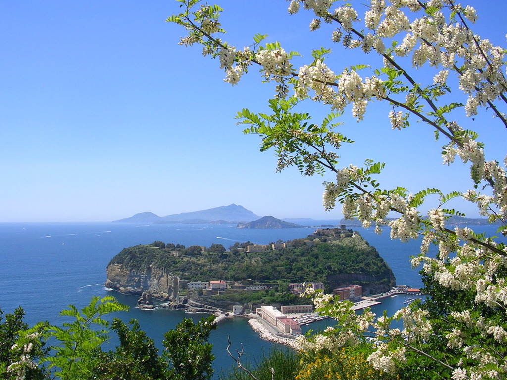 The islet of Nisida as viewed from Parco Virgiliano, Naples, Italy.